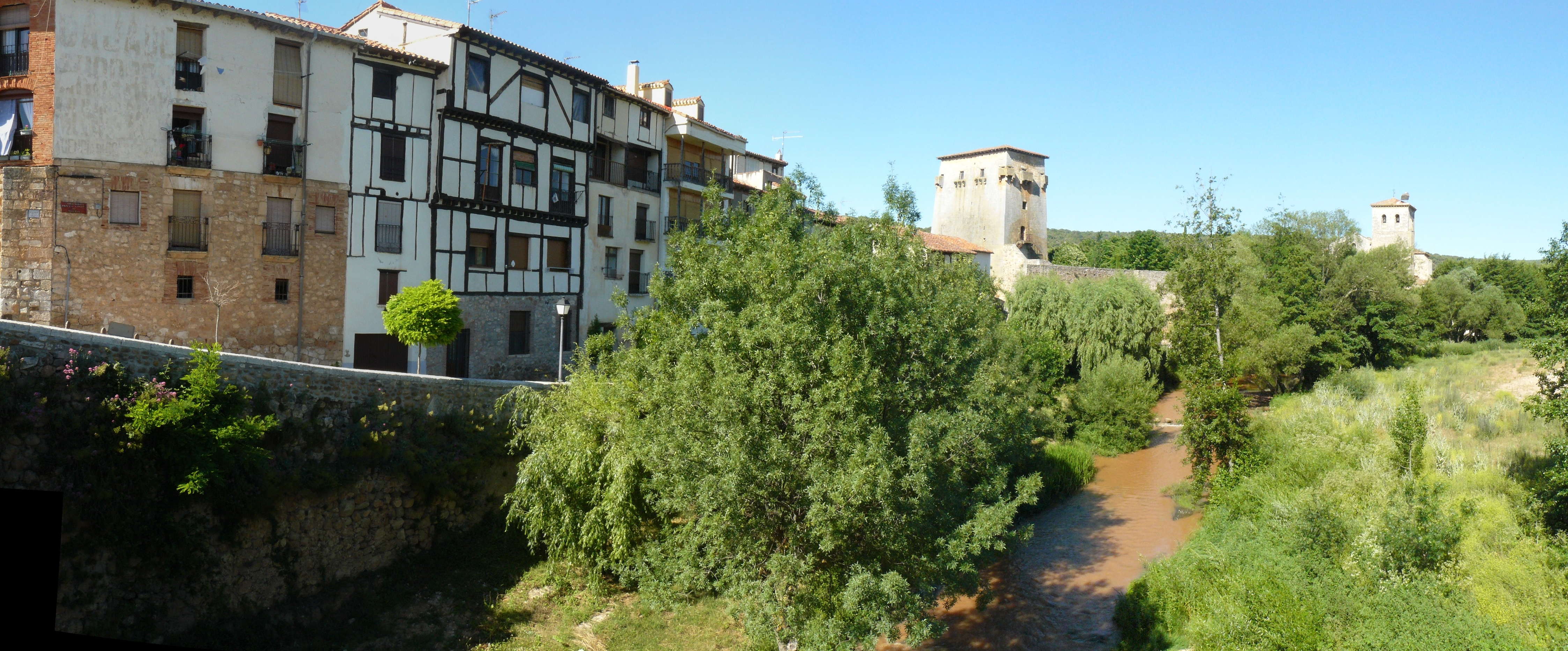 Covarrubias (Burgos,Spain) as seen from the river, with the collegiate church at the back and tower of Fernán González in the middle. Typical buildings on the left hand side.